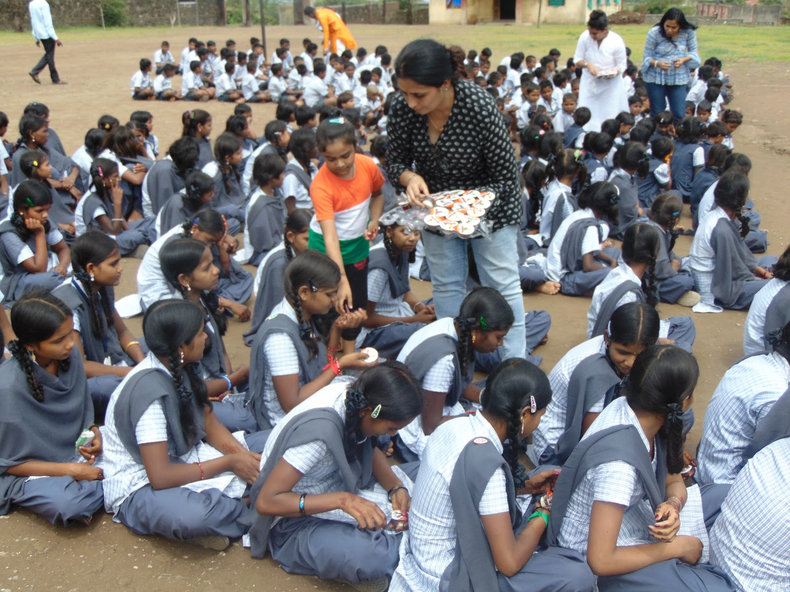 Extending a helping hand to a hopeful future...